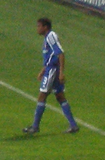 Betao, defender of Dynamo Kyiv